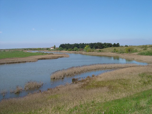 Broad Water. Looking SW across Broadwater a lagoon behind the dunes at Holme nature reserve. The building in the distance is the visitor centre for the reserve.